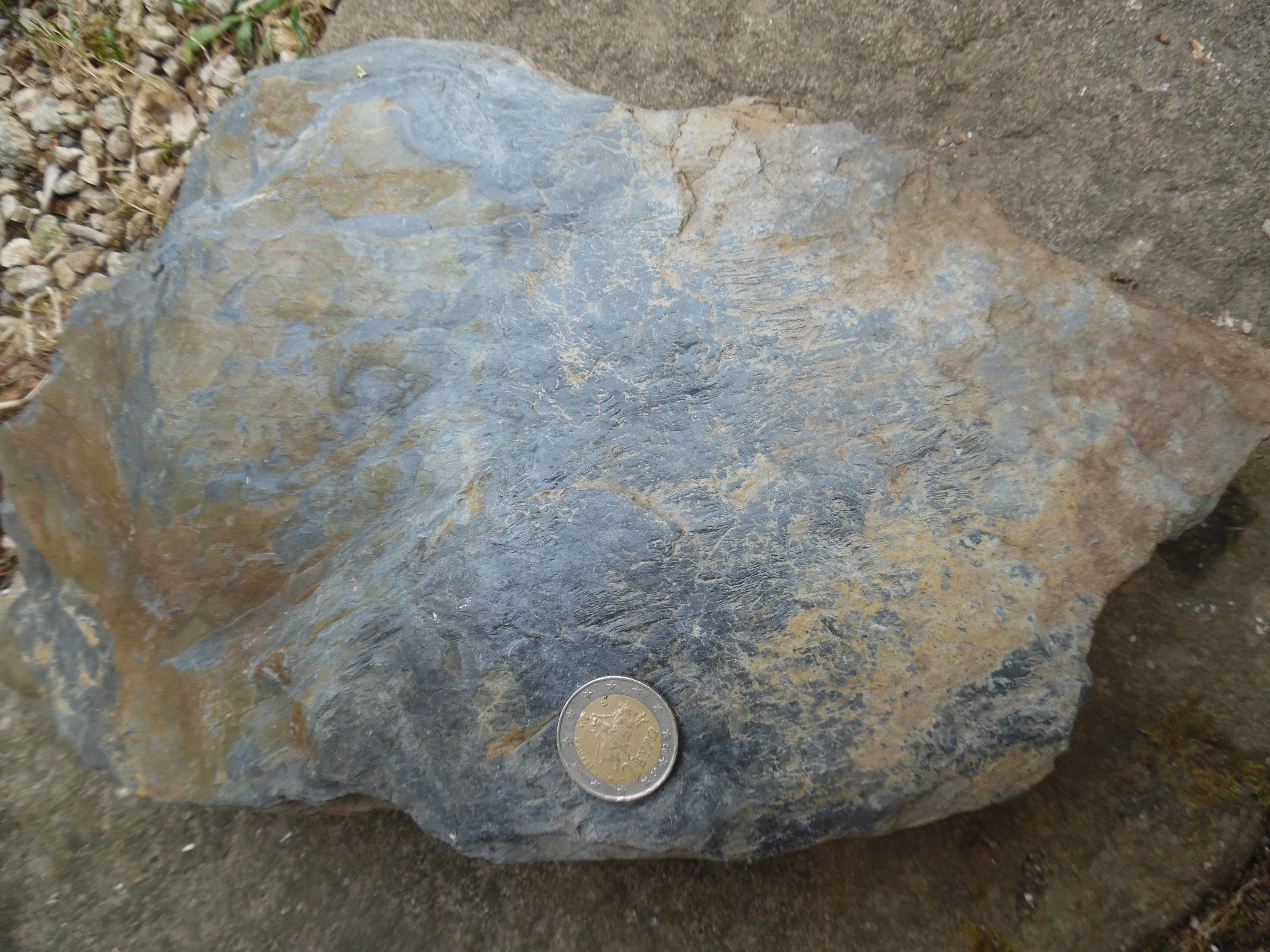 Dark sericite schist belonging to the Génis Sericite Schist and coming from the Cubas Syncline, just north of Cherveix-Cubas, Dordogne, France.